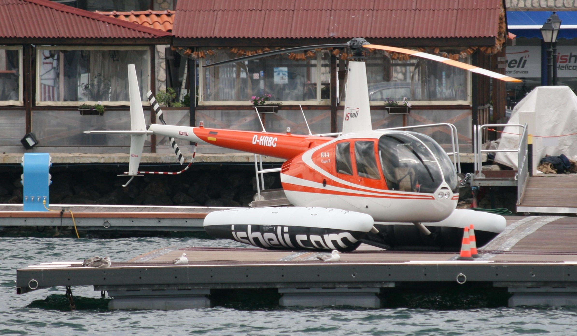 helicopter Robinson R44 at black-sea-marina of Nessebar/Bulgaria; private Helicopter-Service